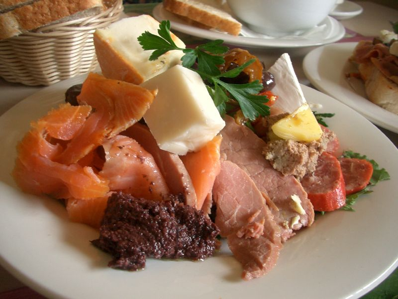 Antipasto Platter - Yarra Glen Cafe and Store aka Cheesefreaks smoked salmon, smoked chicken buried somewhere, roast beef, pate, cabana sausage, brie-style cheese chedder-style goats milk cheese, Jensen's Red washed rind cheese, olives, tapenade, rocket pesto around the back, and tomato chutney peeking out.